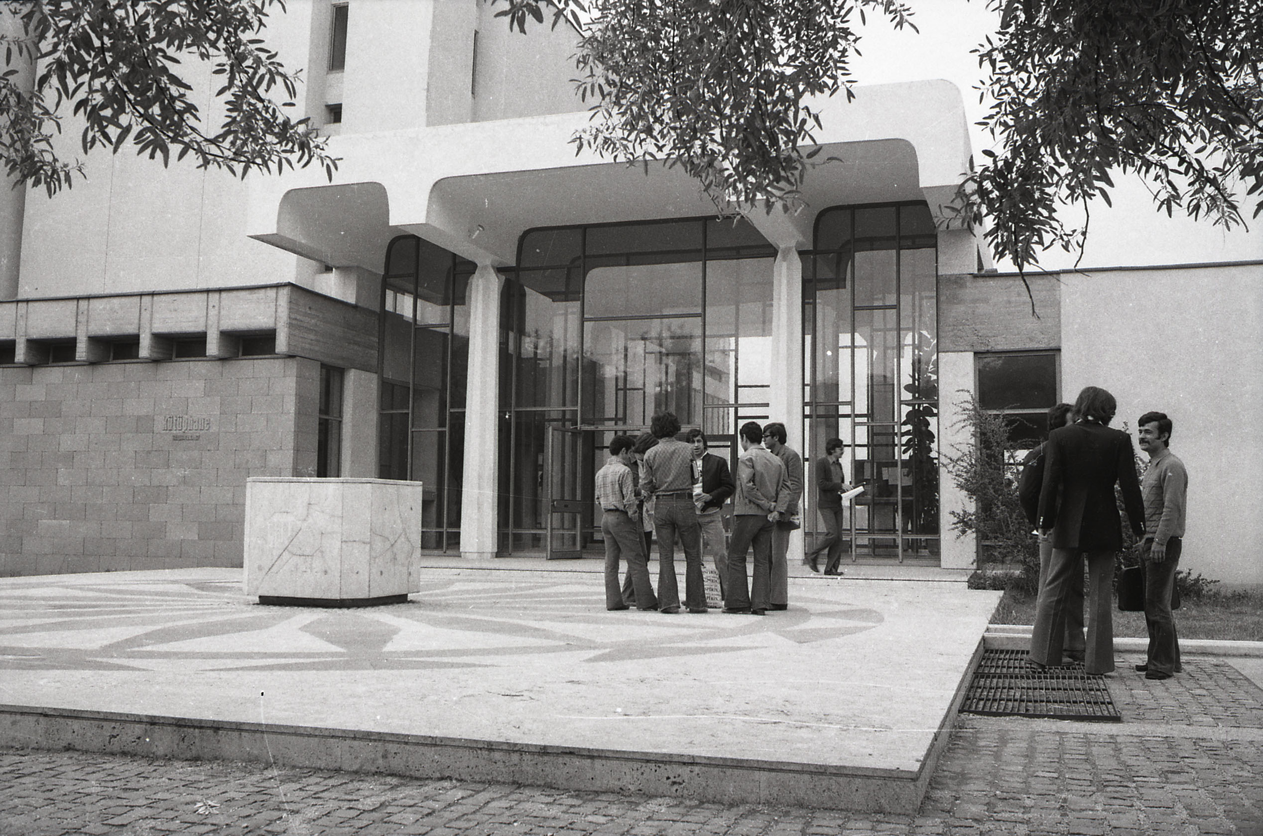 METU Library, additional building, entrance door, 1961-1980 SALT Research, Altuğ-Behruz Çinici Archive ODTÜ Kütüphanesi, ek bina, giriş kapısı, 1961-1980 SALT Araştırma, Altuğ-Behruz Çinici Arşivi